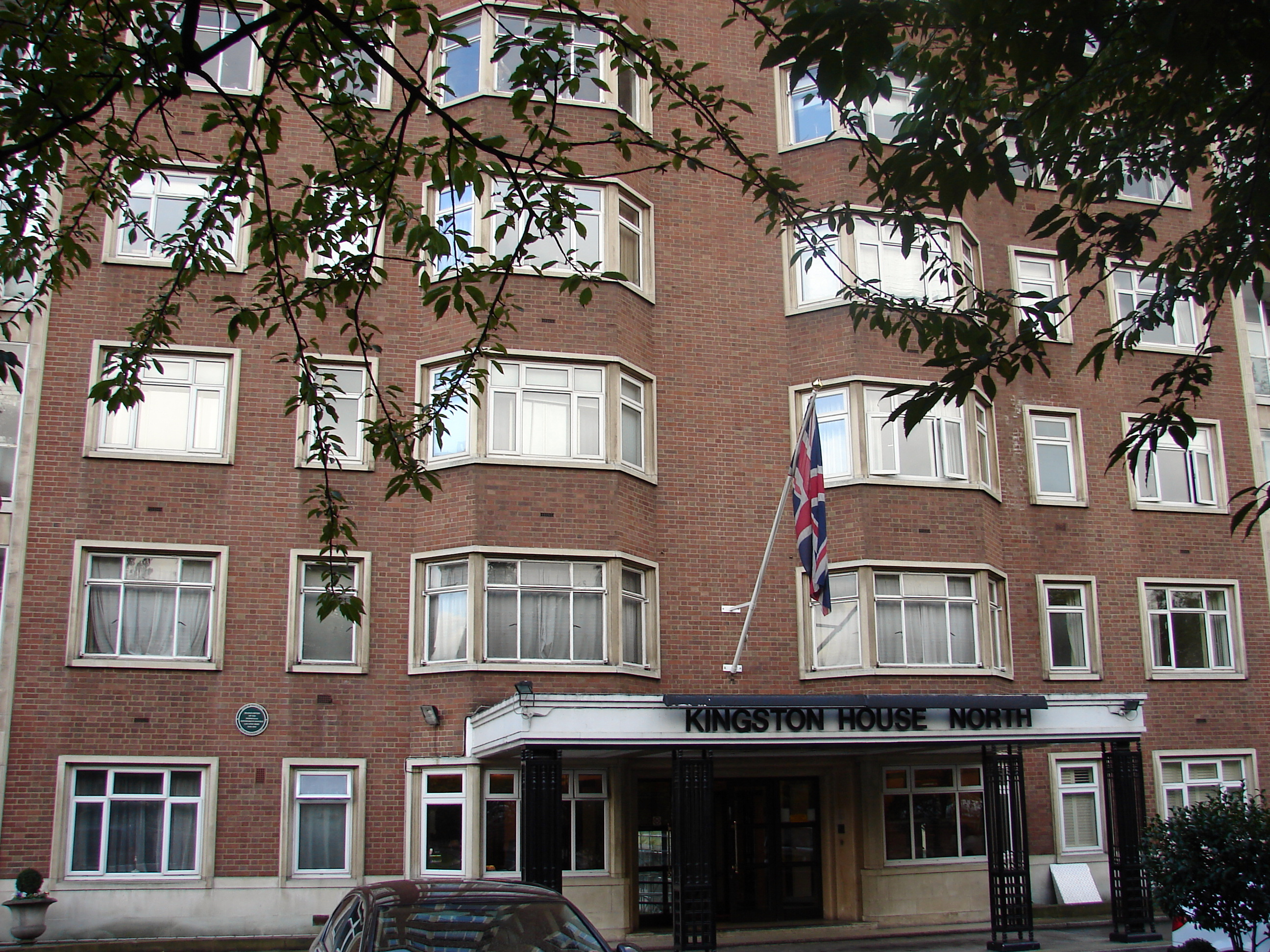 Kingston House North, Prince's Gate, Westminster, London, United Kingdom with plaque to the Norwegian Government-in-exile